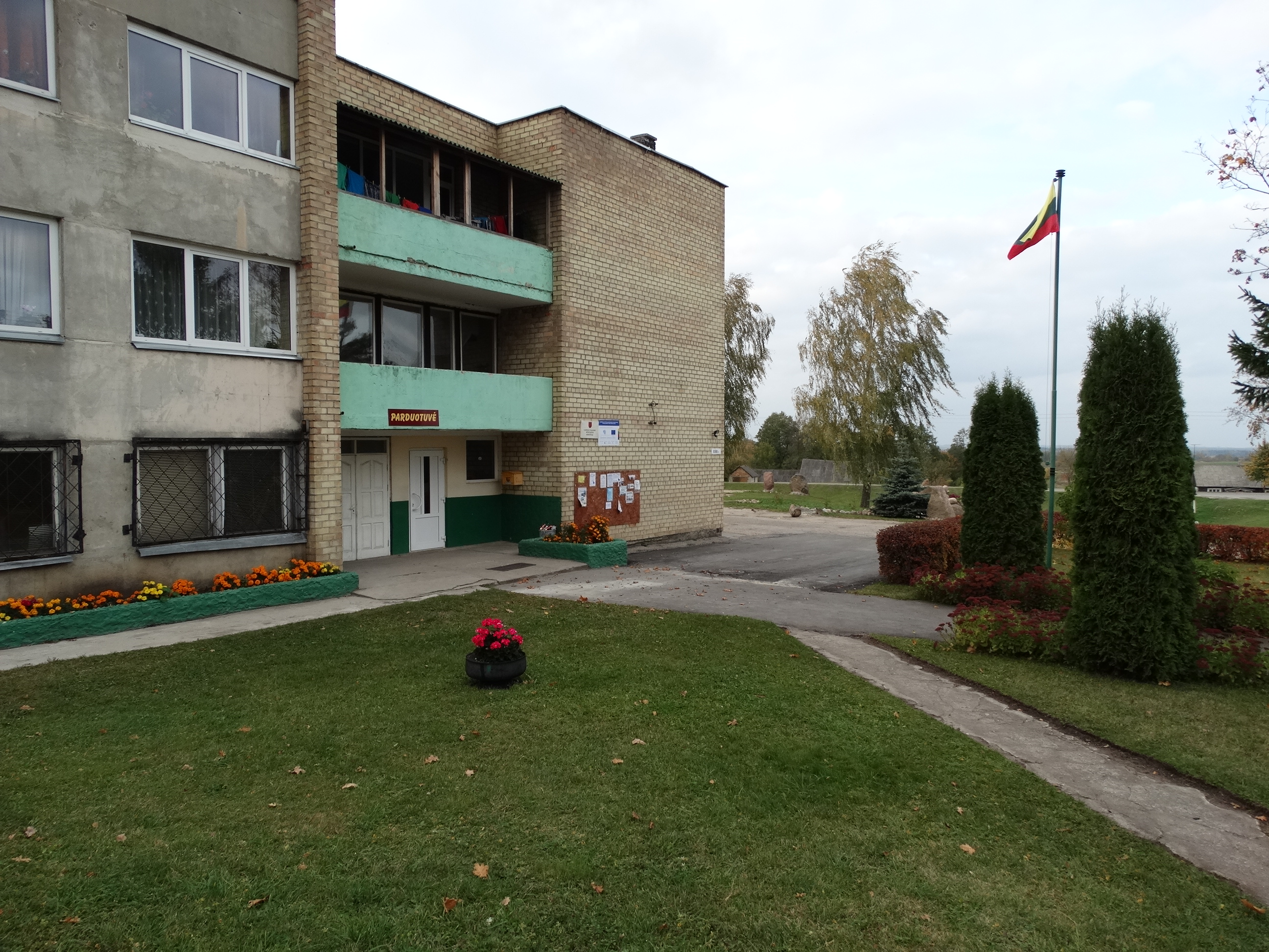 Eldership of Būdvietis, Aštrioji Kirsna, Lazdijai district, Lithuania